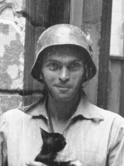 Warsaw Uprising: Photographer Eugeniusz Lokajski with a cat in front of the townhouse at 12 Moniuszki Street.